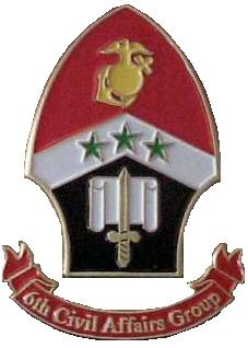 Unit Insignia.